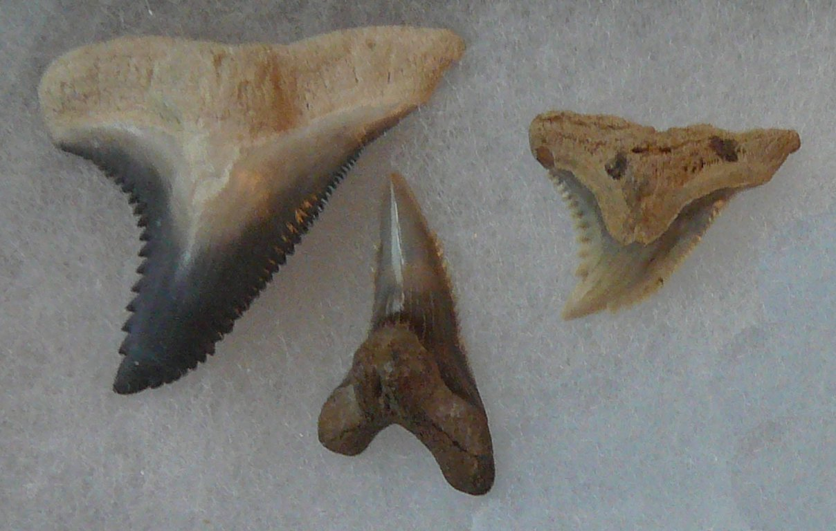 Crop of file in filename